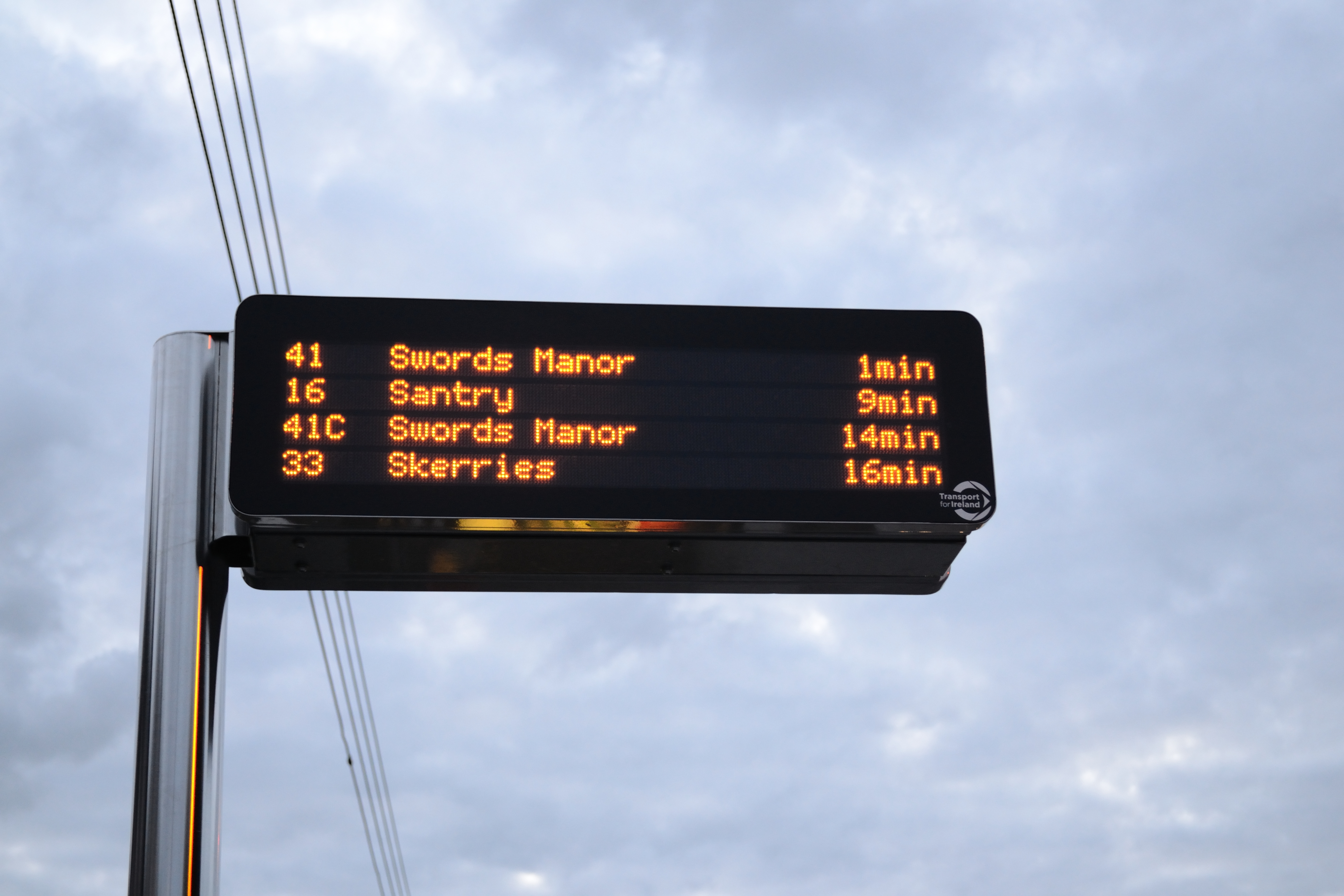 Example of Dublin Bus real-time passenger information.